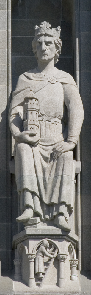 Statue of biblical king Ussia on Nidaros Cathedral, Trondheim, Norway. Modeled by Sivert Donali. The photographer